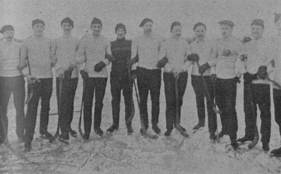 Bandy club PUS Helsinki, champions of the 1910 Vyborg Winter Games in Finland.